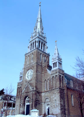 Church in Sainte-Thérèse, Québec. Photo taken in the winter. Can be replaced if anyone think they have a better one.